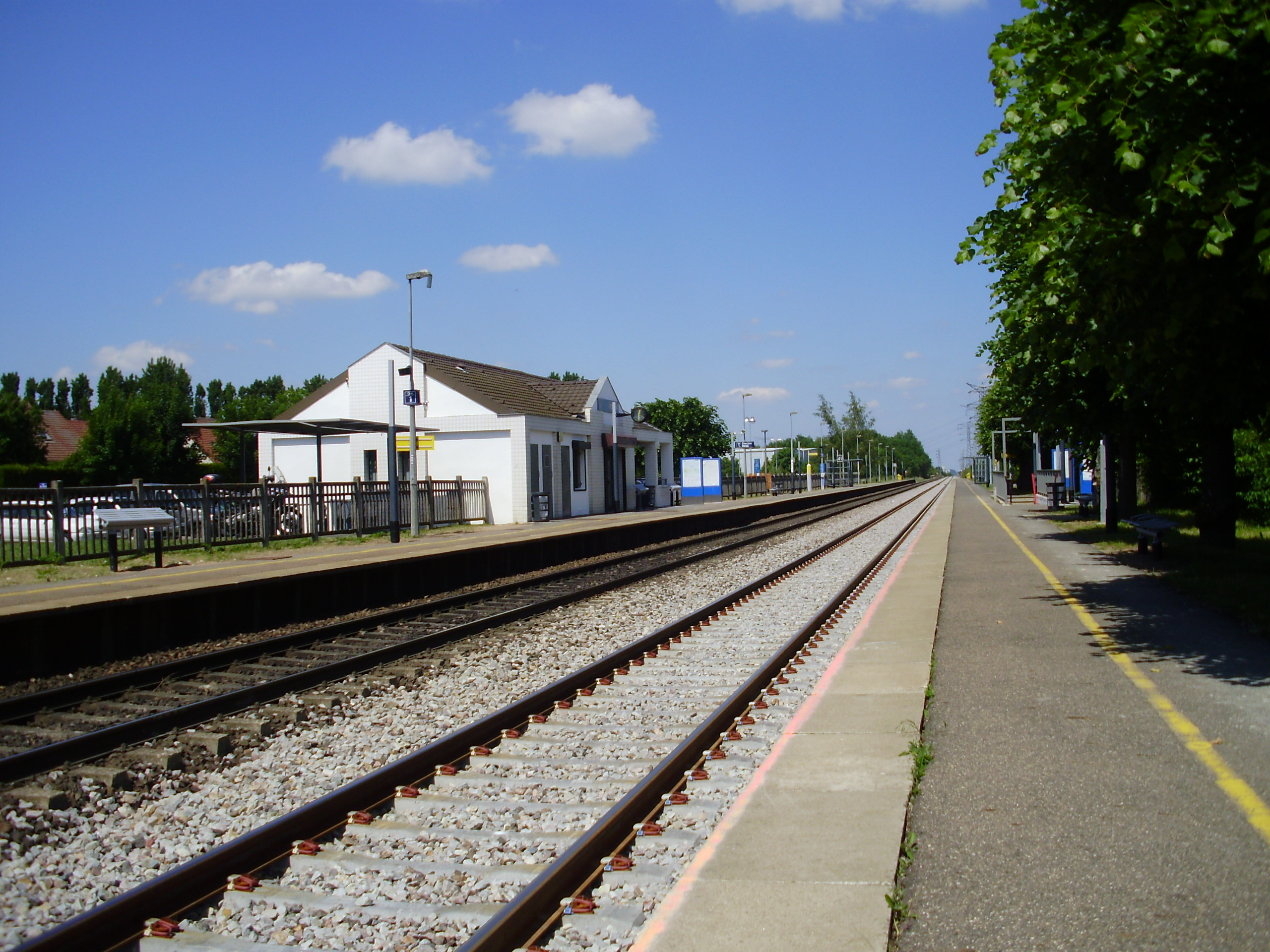 Mormant station, Seine-et-Marne, France (view towards Paris)